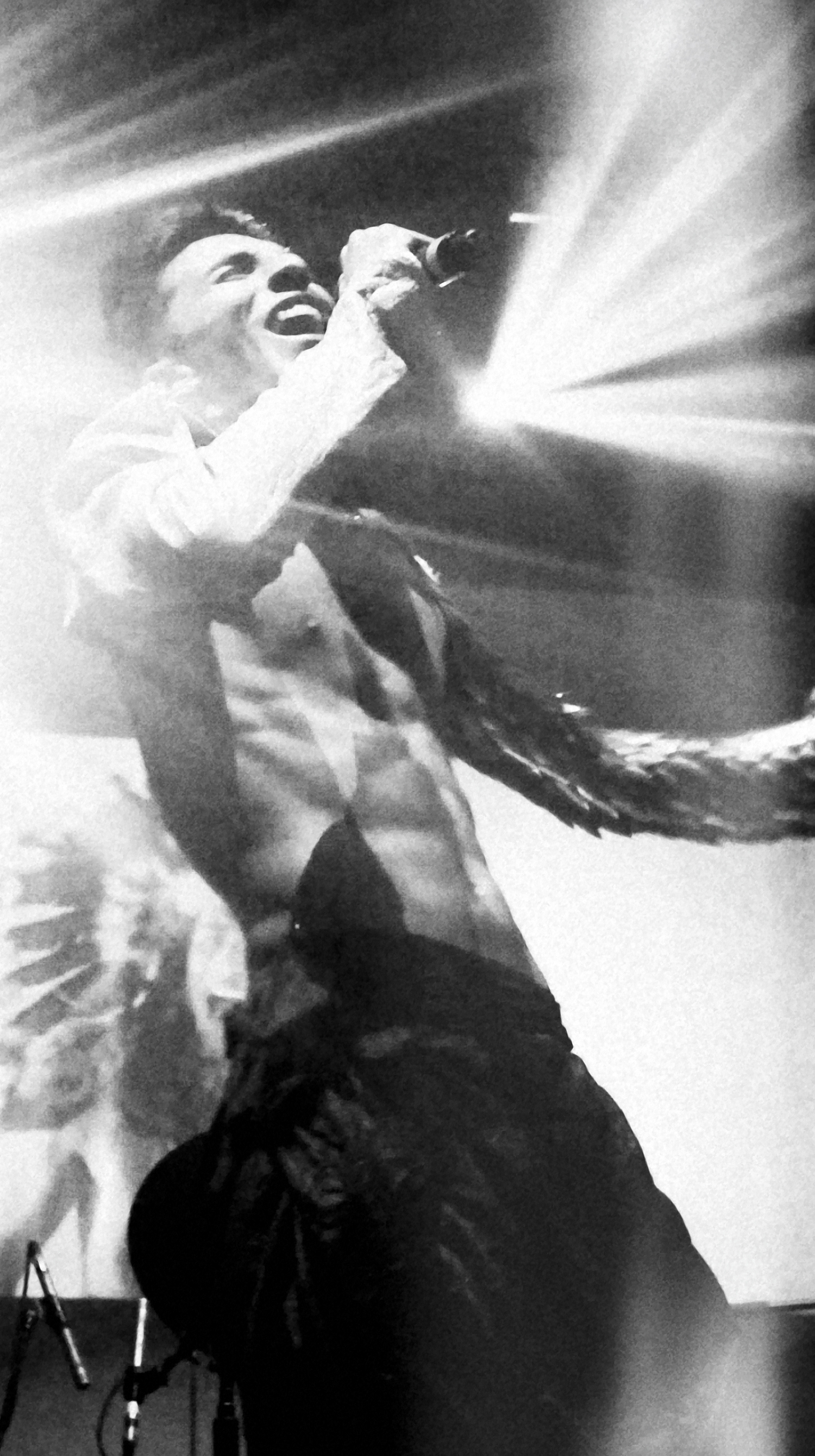 Alek Sandar performing during the opening of the New Music Seminar, New York Music Festival 2012, June 2012, Webster Hall, New York City